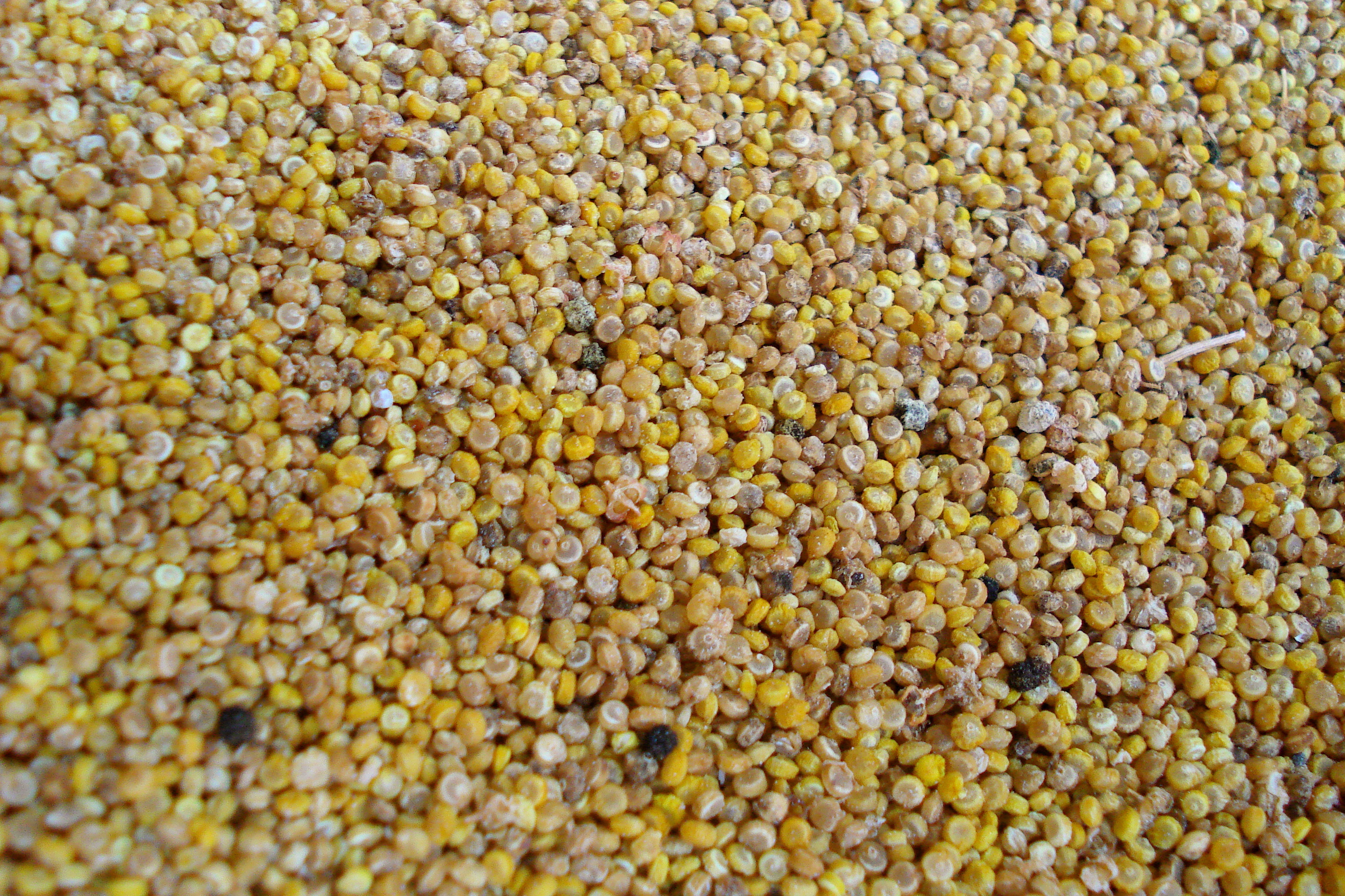 Harvested seeds of homegrown Chenopodium quinoa, grown from a few seeds planted in the spring and a small autumn harvest